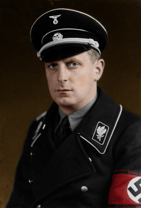 This is a retouched picture, which means that it has been digitally altered from its original version. Modifications: recolored. The original can be viewed here: Bundesarchiv Bild 183-2007-1010-500, Werner Lorenz.jpg: . Modifications made by Ruffneck88. Photographer unknownThe description above says "Fritz Krauskopf" (GND 105723355), a well-known photographer at Königsberg. Moved at the end of World War II to Zeven near Hannover. Published in 1954 a book about Königsberg.Original caption Werner Lorenz Scherl Bildedienst Berlin SS-Gruppenführer [Werner] Lorenz Fotograf: Fritz Krauskopf, Königsberg 18703-34 [Werner Lorenz, SS-Gruppenführer, Porträt] Abgebildete Personen: Lorenz, Werner (GND 130506710): SS-Obergruppenführer, Leiter der Volksdeutschen Mittelstelle, DeutschlandDate 1934date QS:P571,+1934-00-00T00:00:00Z/9Collection German Federal Archives Native nameDas BundesarchivParent institutionFederal Government Commissioner for Culture and Media LocationKoblenz (headquarters)Coordinates50° 20′ 32.71″ N, 7° 34′ 21.22″ E Established1946 Web page control : Q685753 VIAF: 137346469 ISNI: 0000 0004 0555 2728 LCCN: n92025526 NLA: 36455393 Open Library: OL55798A WorldCat institution QS:P195,Q685753Current location Allgemeiner Deutscher Nachrichtendienst - Zentralbild (Bild 183)Accession number Bild 183-2007-1010-500 Source This image was provided to Wikimedia Commons by the German Federal Archive (Deutsches Bundesarchiv) as part of a cooperation project. The German Federal Archive guarantees an authentic representation only using the originals (negative and/or positive), resp. the digitalization of the originals as provided by the Digital Image Archive. Werner Lorenz Scherl Bildedienst Berlin SS-Gruppenführer [Werner] Lorenz Fotograf: Fritz Krauskopf, Königsberg 18703-34 [Werner Lorenz, SS-Gruppenführer, Porträt] Abgebildete Personen: Lorenz, Werner (GND 130506710): SS-Obergruppenführer, Leiter der Volksdeutschen Mittelstelle, Deutschland